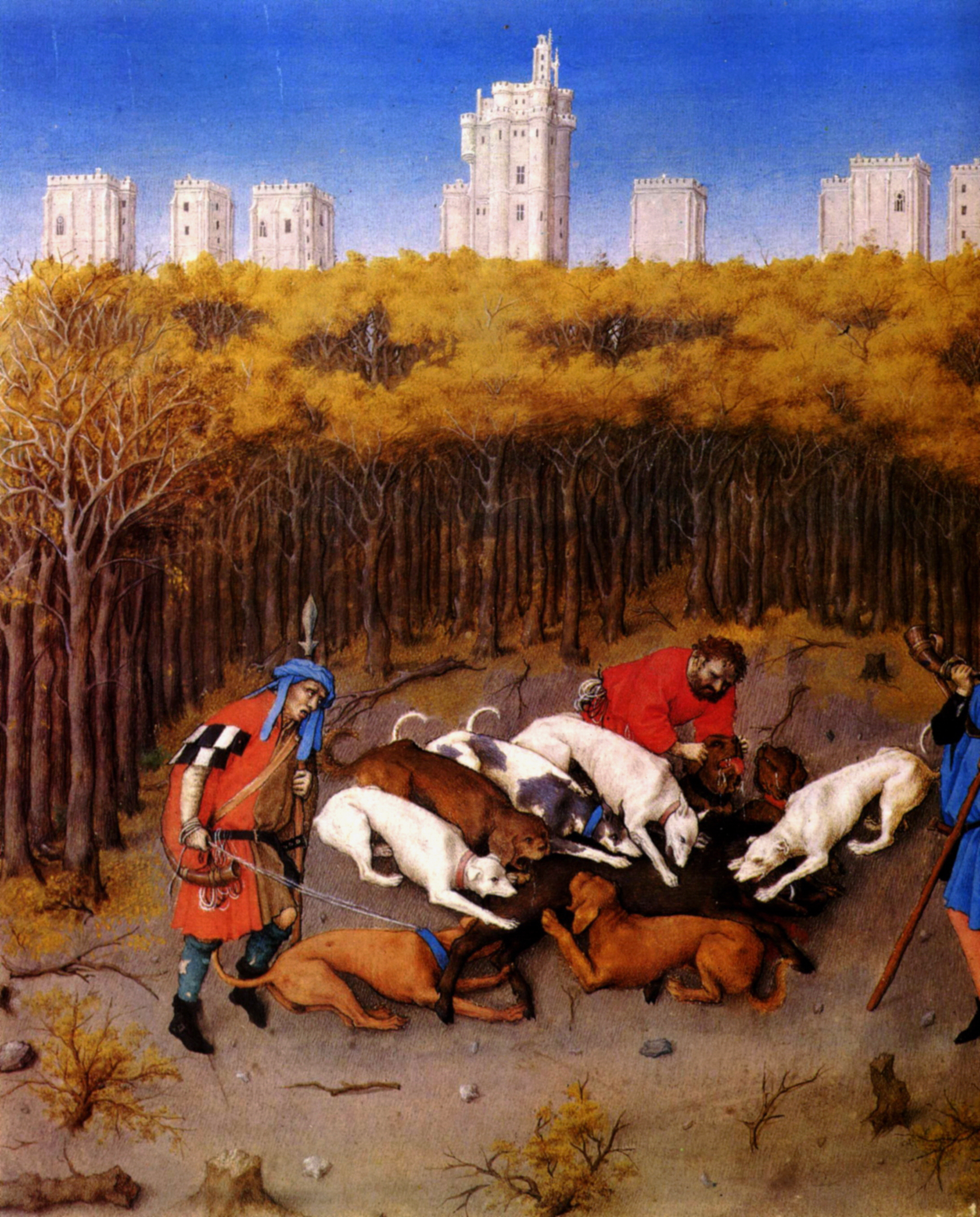 Très Riches Heures du Duc Jean de Berry, Scene: December